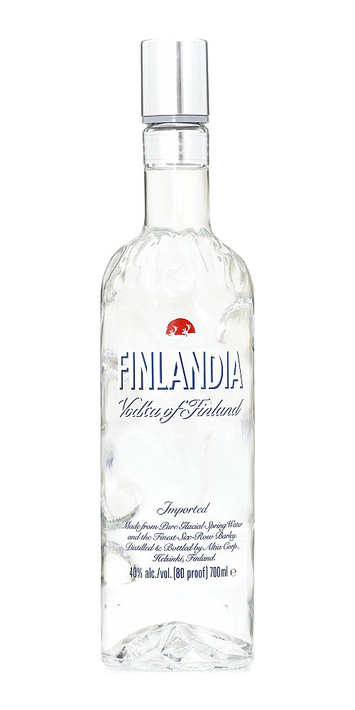 A 0.7 litre bottle of Finlandia.